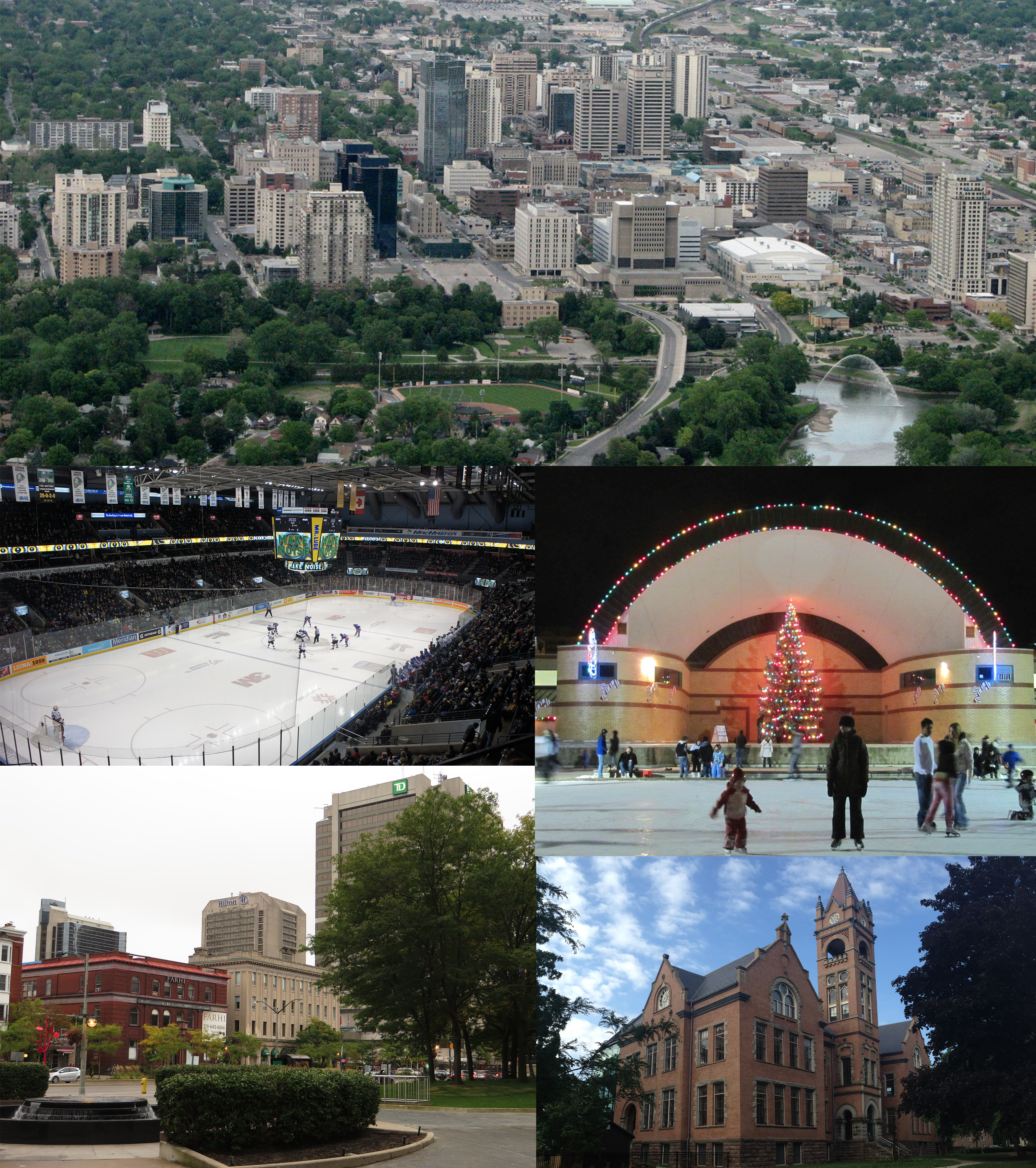 Montage of London Ontario images. From top to bottom left to right: London skyline Budweiser Gardens Victoria Park Financial District London Normal School